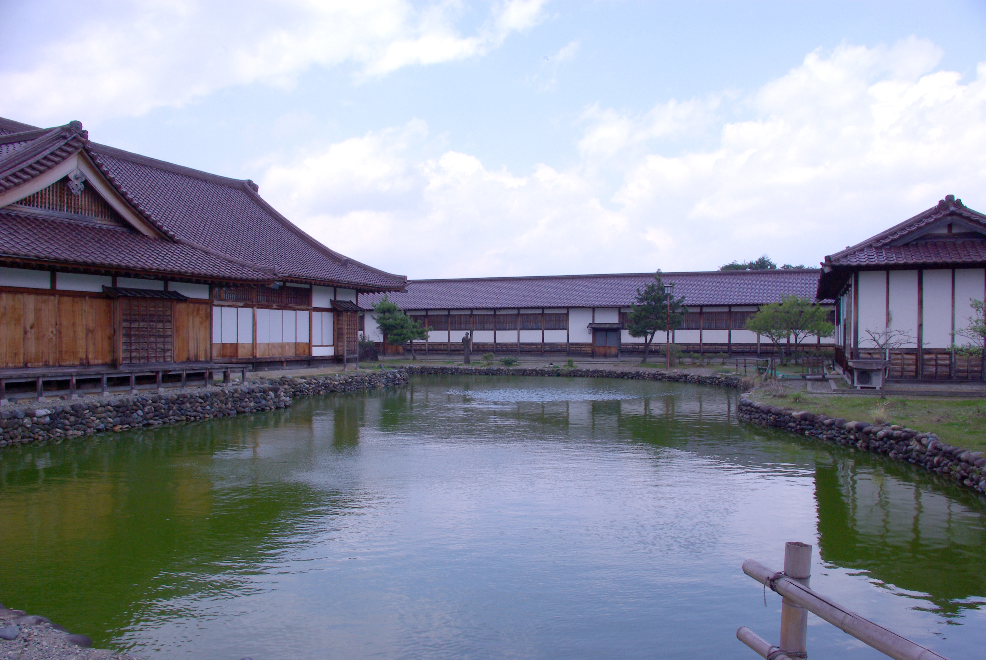 First SwimmingPool(restoration) in Japan. (See:ja:日新館)